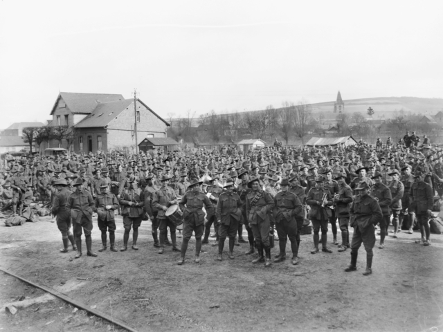 Australian solders from the 29th Quota, 3rd Australian Division waiting for a train at Gamaches railway station. The men were leaving France to be repatriated to Australia.